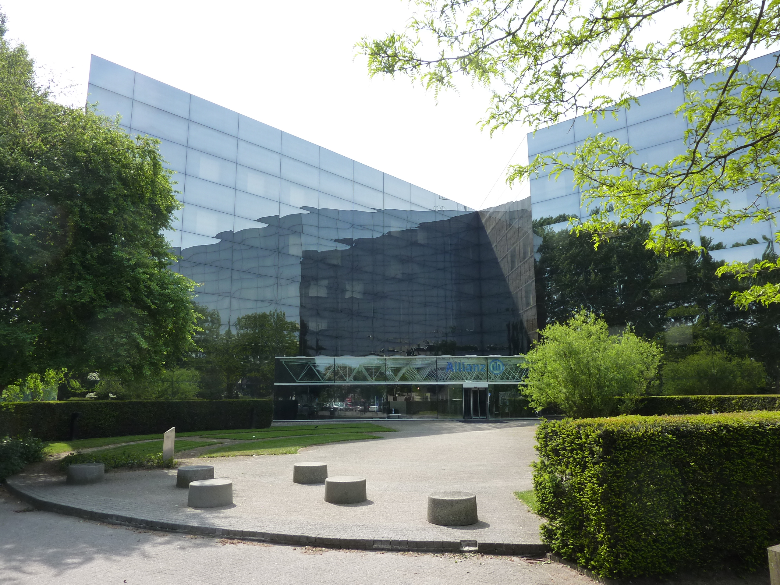 Zwolsche Algemeene Head office building at Nieuwegein (Netherlands), designed by architect Peter Gerssen